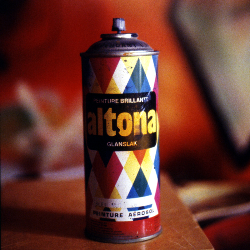 A spray can of paint (brand : Altona).